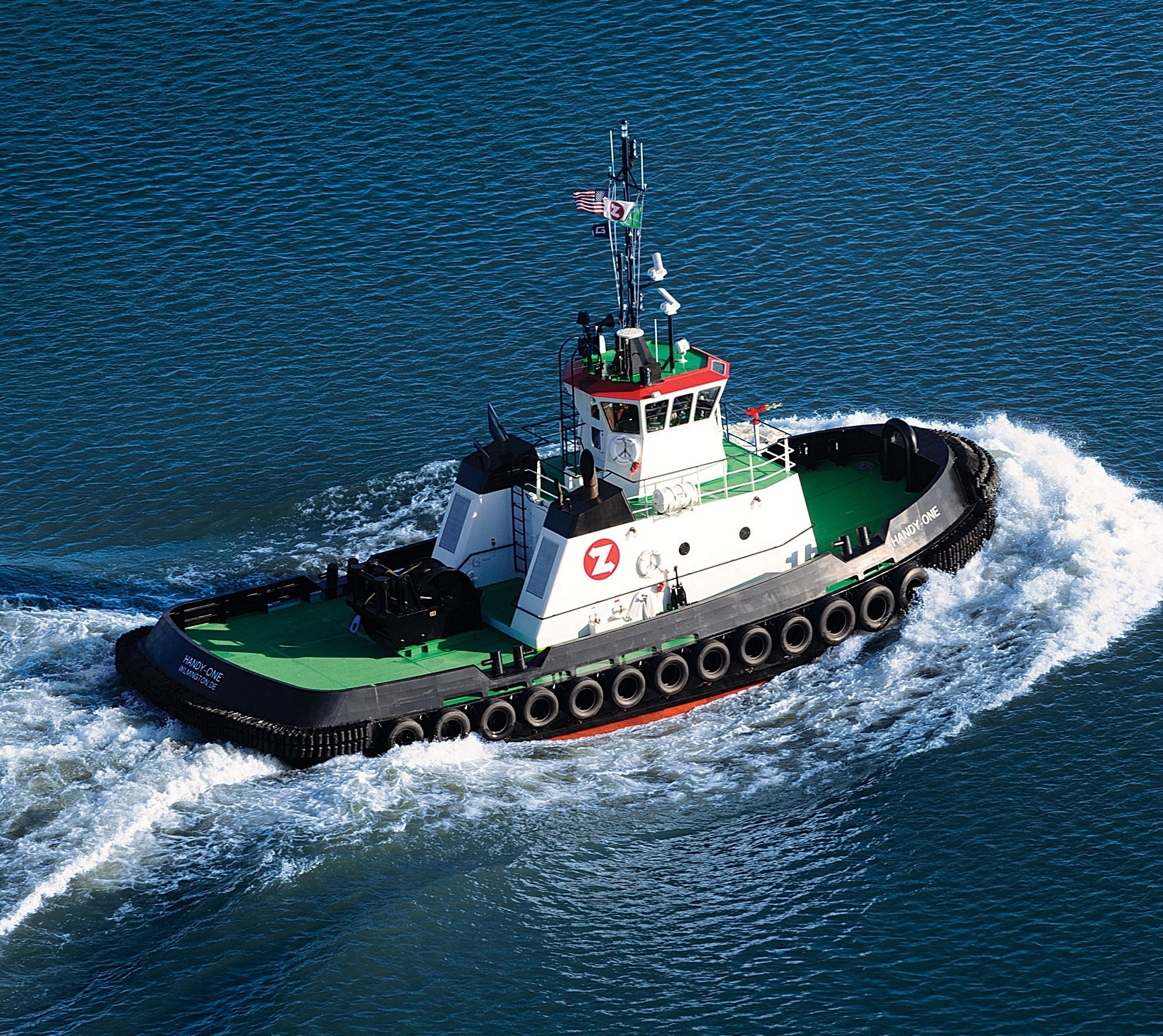 Handy One, the first tug built by Great Lakes Shipyard.